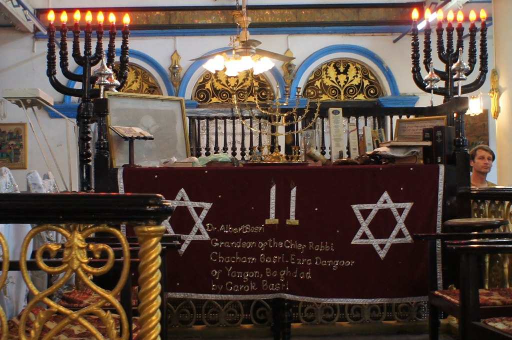 The altar of the Musmeah Yeshua synagogue in Rangoon/Yangon, Burma.